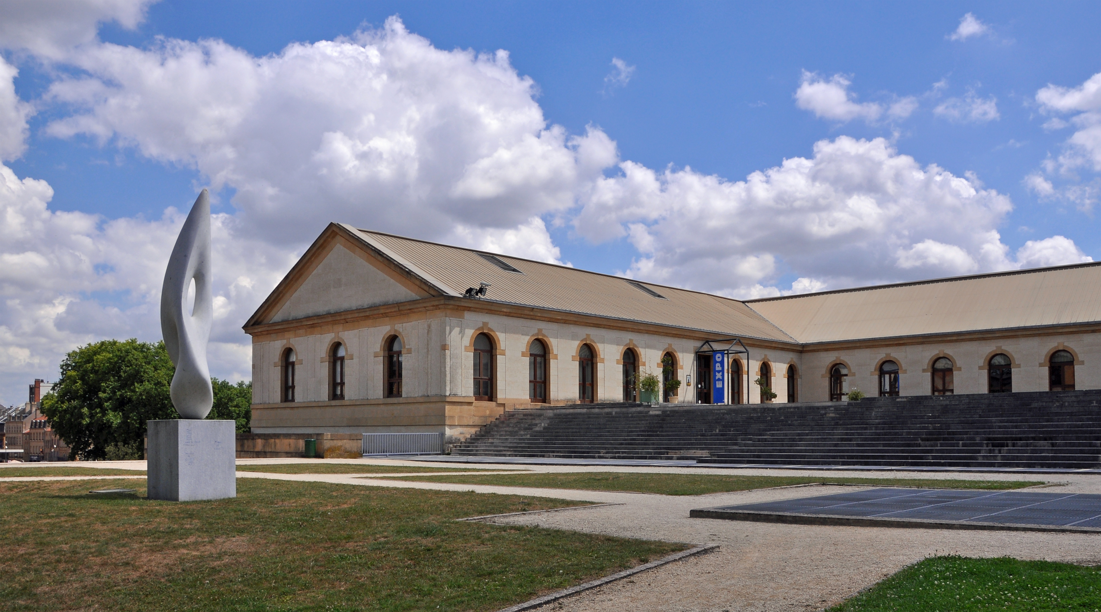 Metz (France): former Arsenal, now arts centre